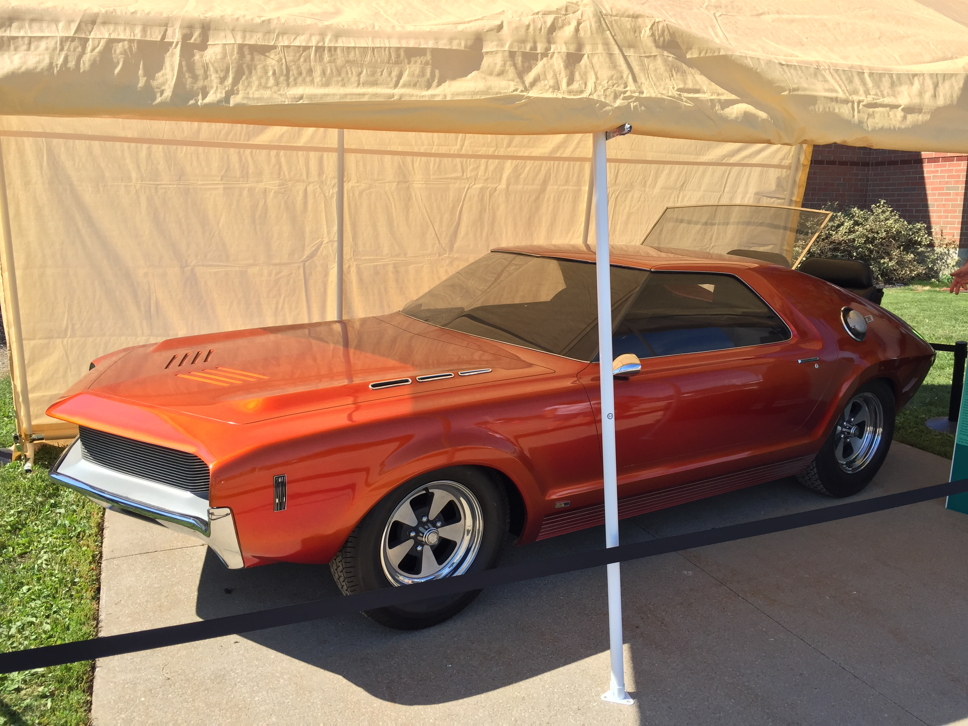 1966 AMC AMX Prototype designed by American Motors Corporation (AMC). This was the first "AMX" (American Motors Experimental) named car. This is a full-sized model of a concept car that features AMC's "Ramble Seat" (a version of the old rumble seat and named (in homage to the automaker's Rambler models) for two additional passengers in this two-seat sports car design. It also has no "A" pillars providing for greater visibility. This prototype "pushmobile" has a fiberglass body with no interior, engine, drivetrain, suspension, etc. It was built and displayed at the 1966 Society of Automotive Engineers (SAE) conference in Detroit, Michigan. This concept design was widely covered by the automotive media in 1966. It appeared on several auto magazine covers. It was also painted in a metallic blue. The back seat fords into the trunk space and the rear window flips down. However, these are not fully weatherproofed designs. Positive response to this design was followed by Richard A. Teague, the Vice President of Design at AMC, to build an operational show car. Picture taken at the car show on Saturday, July 25, 2015, during the American Motors Owners Association (AMO) annual convention that was held near Cleveland, Ohio.